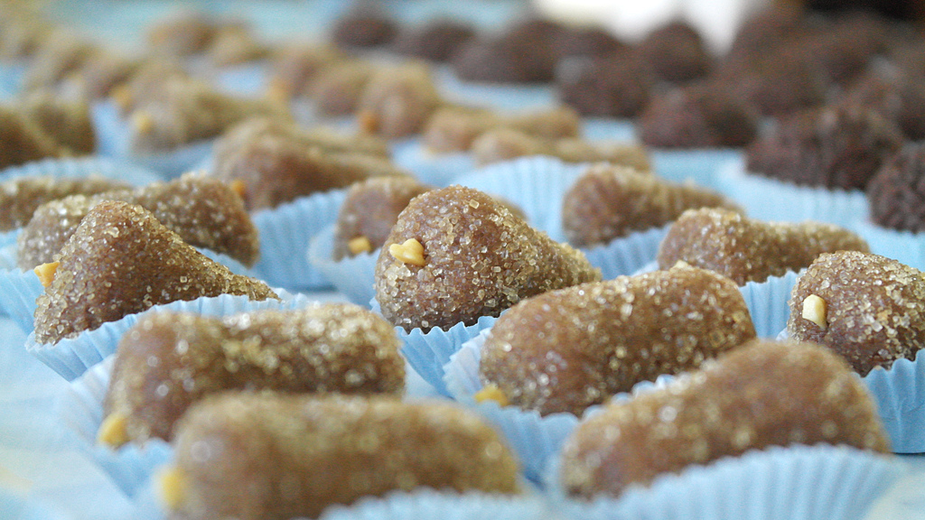 Brazil's traditional cajuzinho sweet.